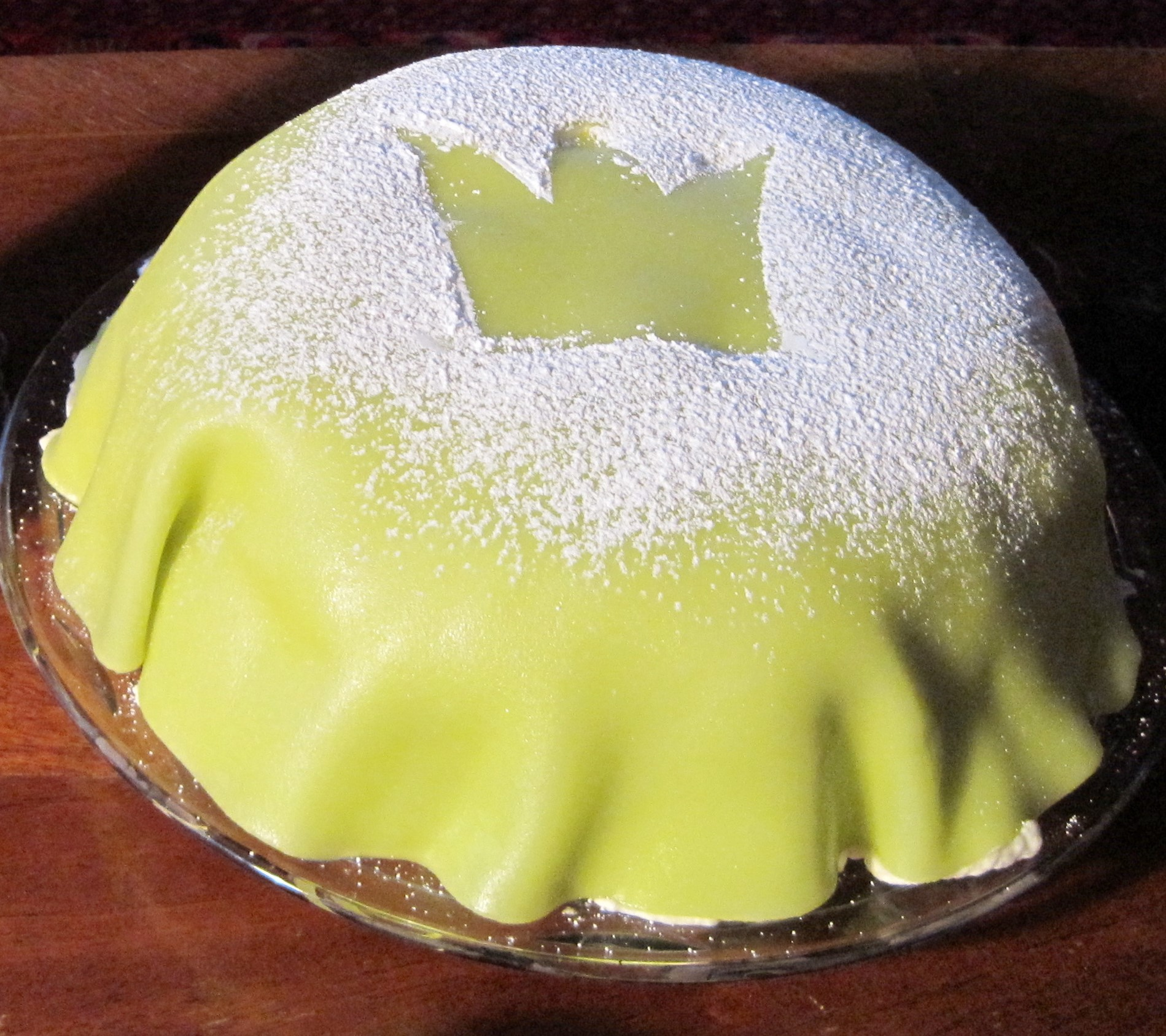 Prinsesstårta, a traditional Swedish cake filled with a.o. whipped cream, custard and jam, and covered with green marzipan.